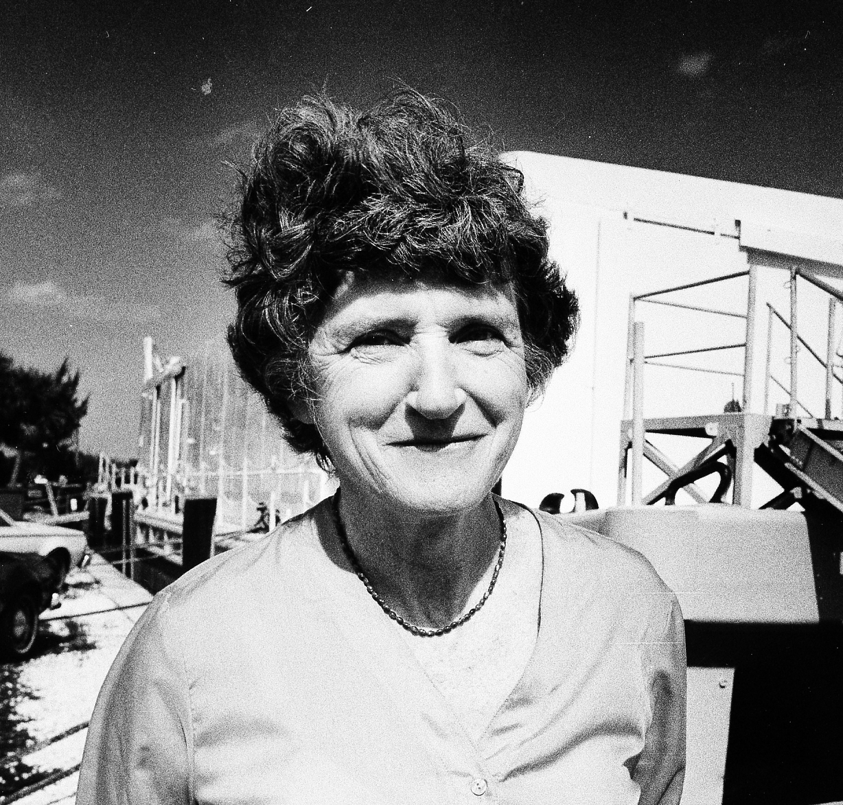 Mary Rice, Curator of Worms, Department of Invertebrate Zoology, National Museum of Natural History, stands in front of the Smithsonian Marine Station's floating lab at Link Port on the Indian River in Fort Pierce, Florida. Image ID # 95-255.